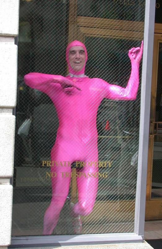 Pink Man in a window, seen on his unicycle. Picture taken by Krista Gettle, Flickr username Lady_K. Source